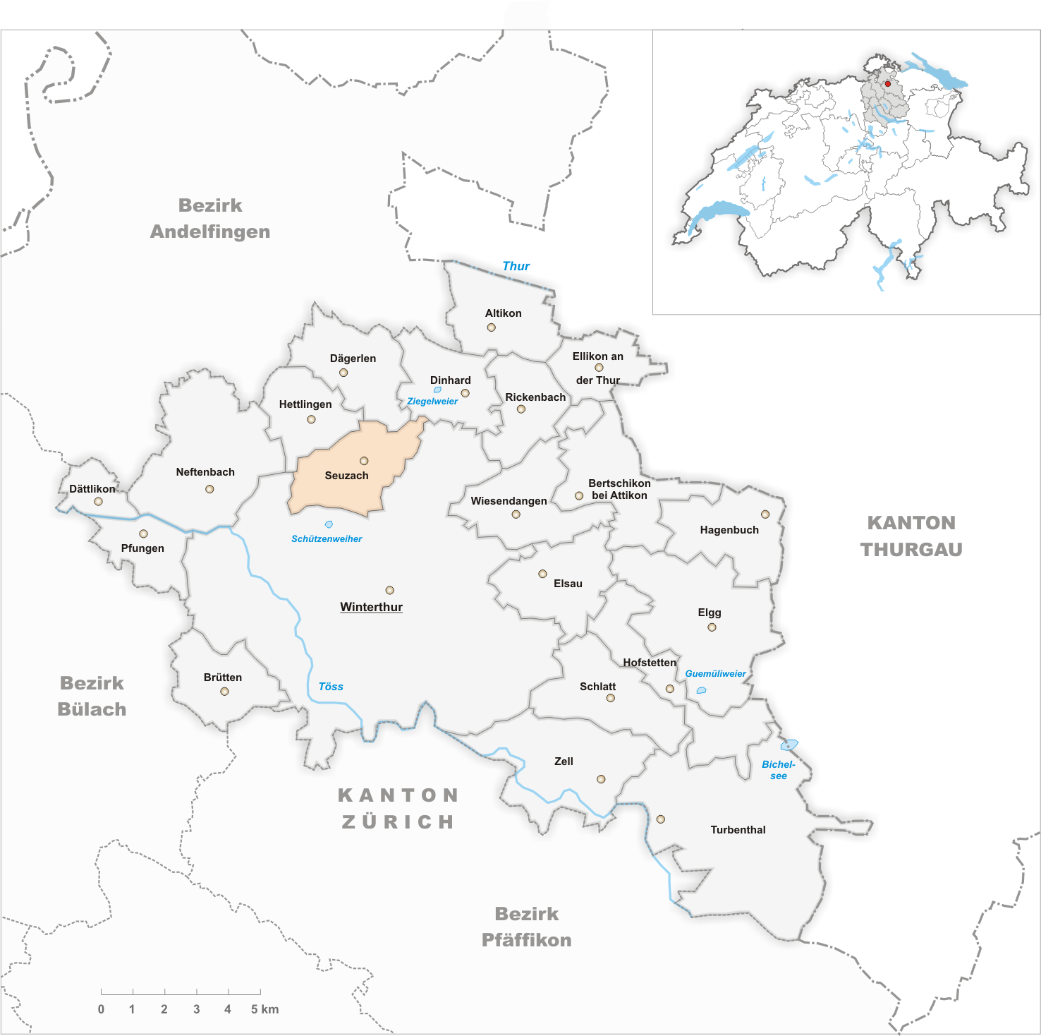 Municipality Seuzach